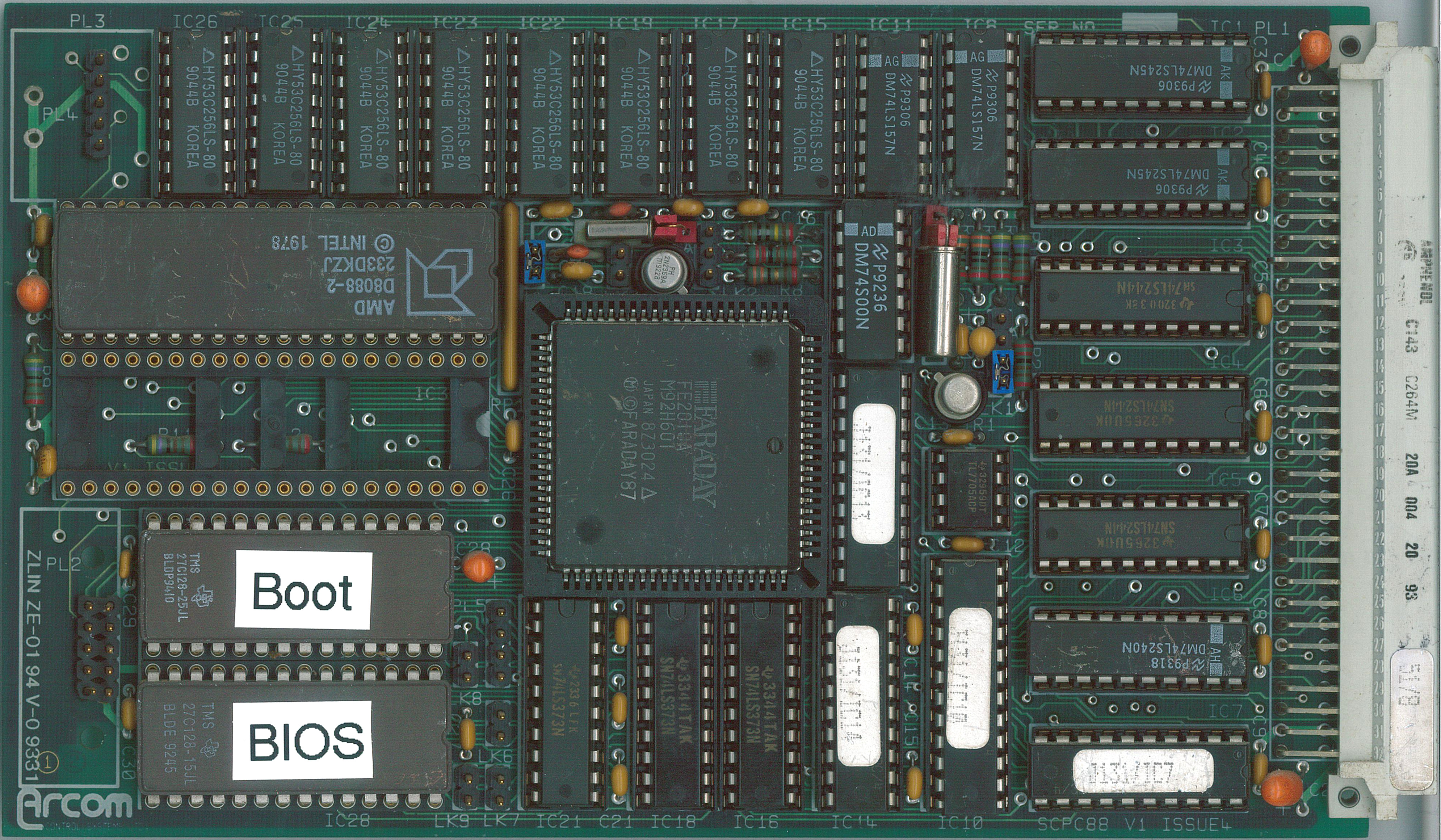 STEbus 8088 processor, PC-compatible, on 100x160mm Eurocard. Designed by Arcom Control Systems in 1987.